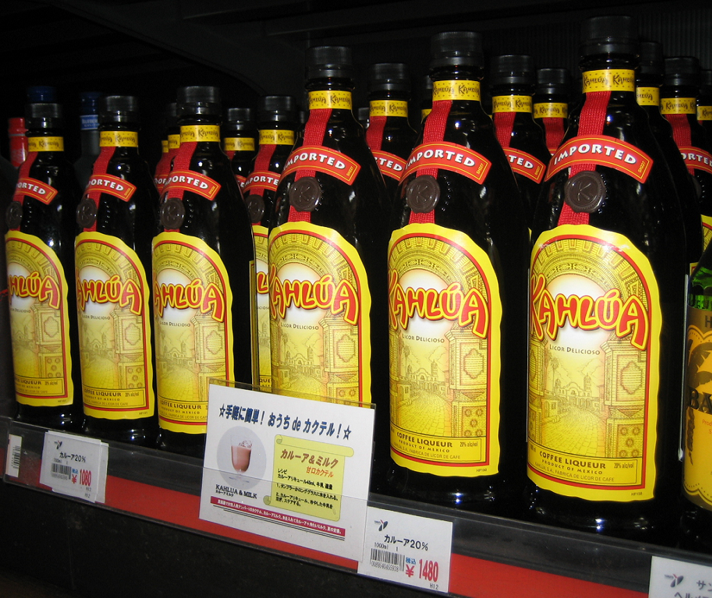 Bottles of Kahlúa photographed with a Canon Power Shot SD450 Digital Elph at the Yamaya Liquor Store in Fukushima City, Fukushima Prefecture, Japan. Image file extension was changed using a Paint Shop program on a laptop computer.